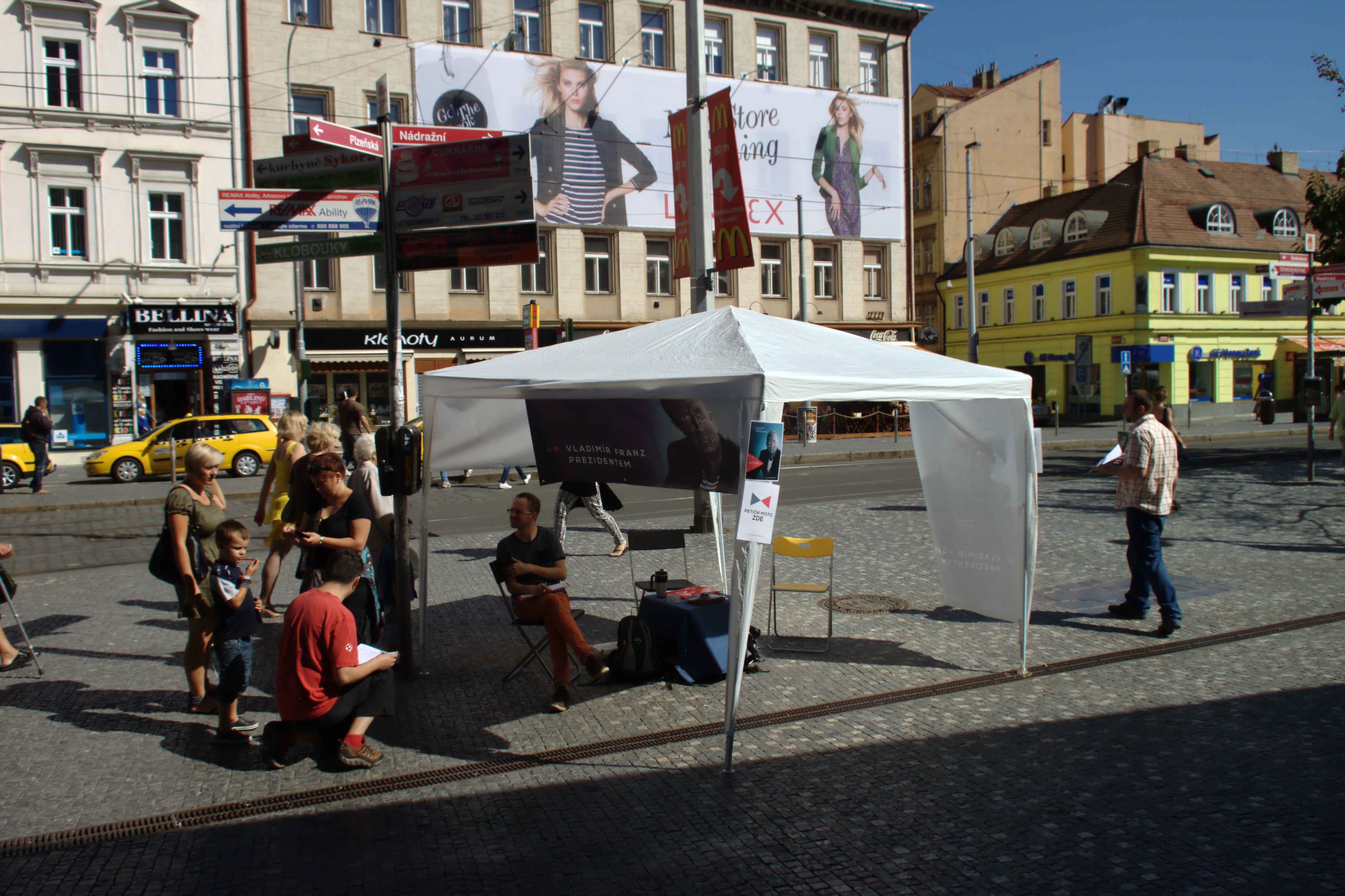 Vladimir Franz's president election campaing and support petition stand in Prague-Anděl, Prague, CZ